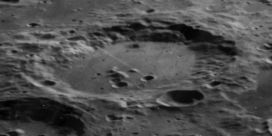 Oblique view of Bose, on the far side of the moon, facing west.